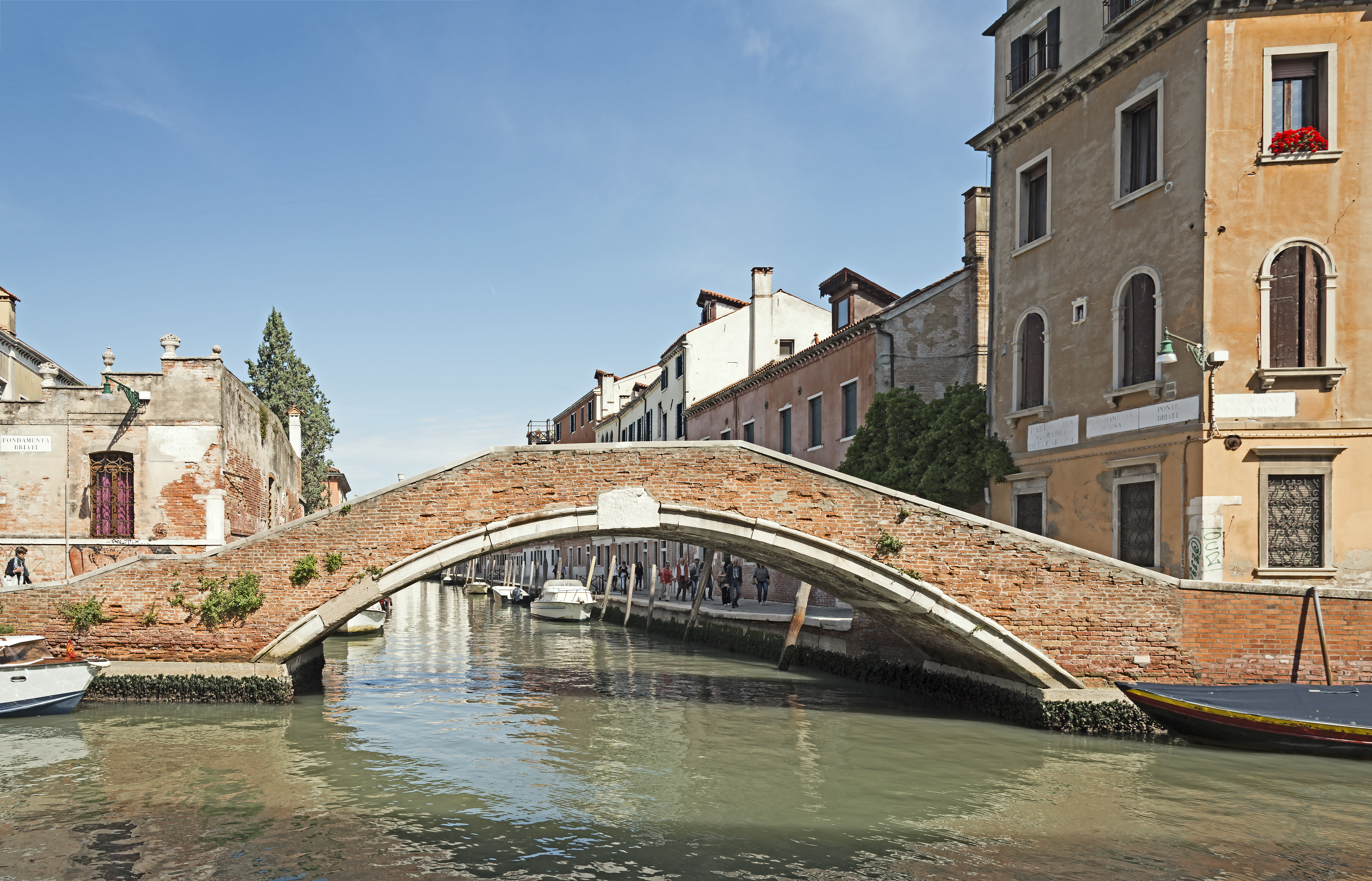 Ponte Briati on Rio Briati - Venice